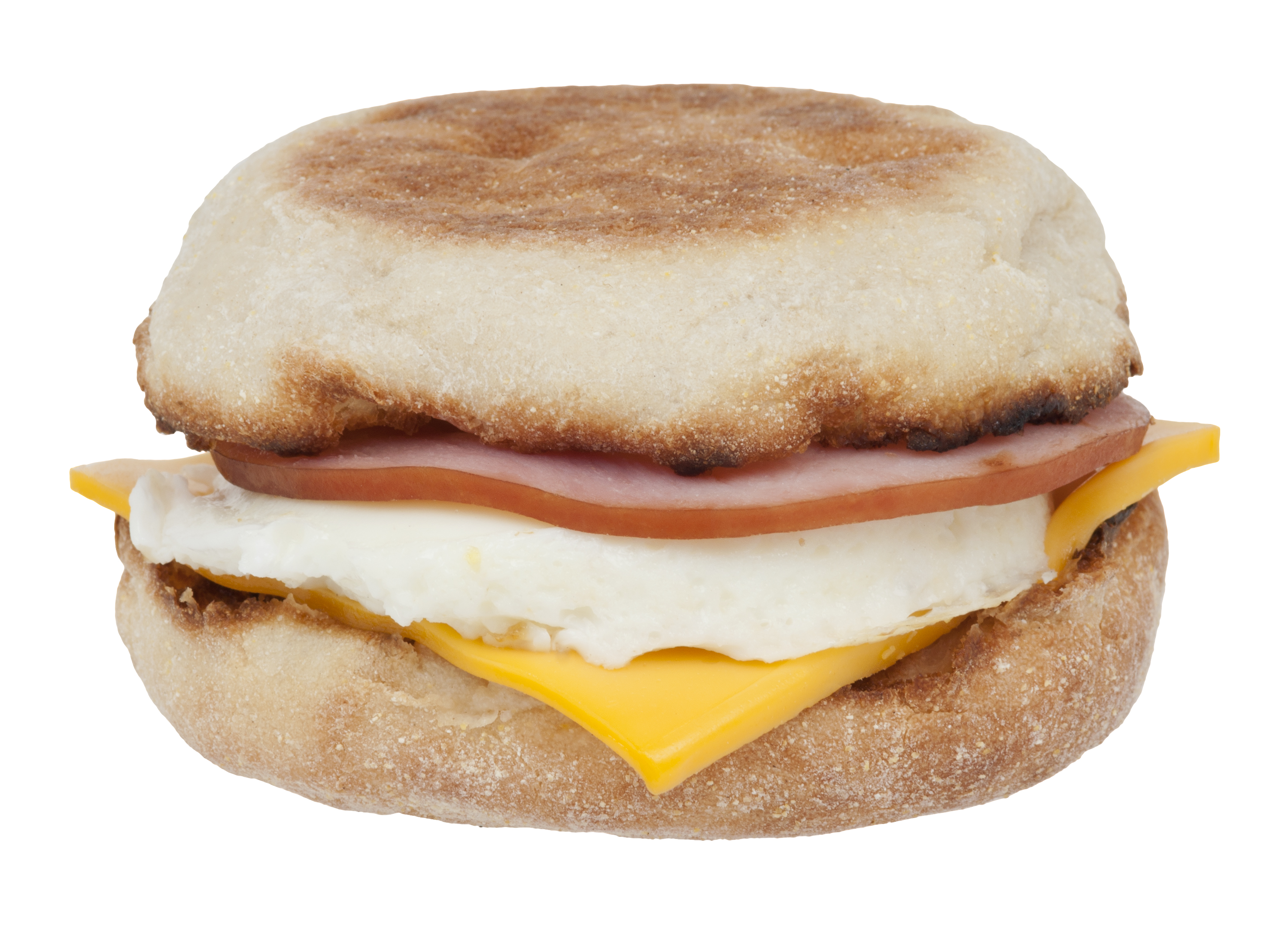 An Egg McMuffin breakfast sandwich from McDonald's, as bought in North America.